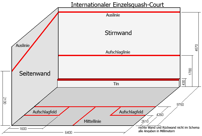 A model of a squash court with german description.